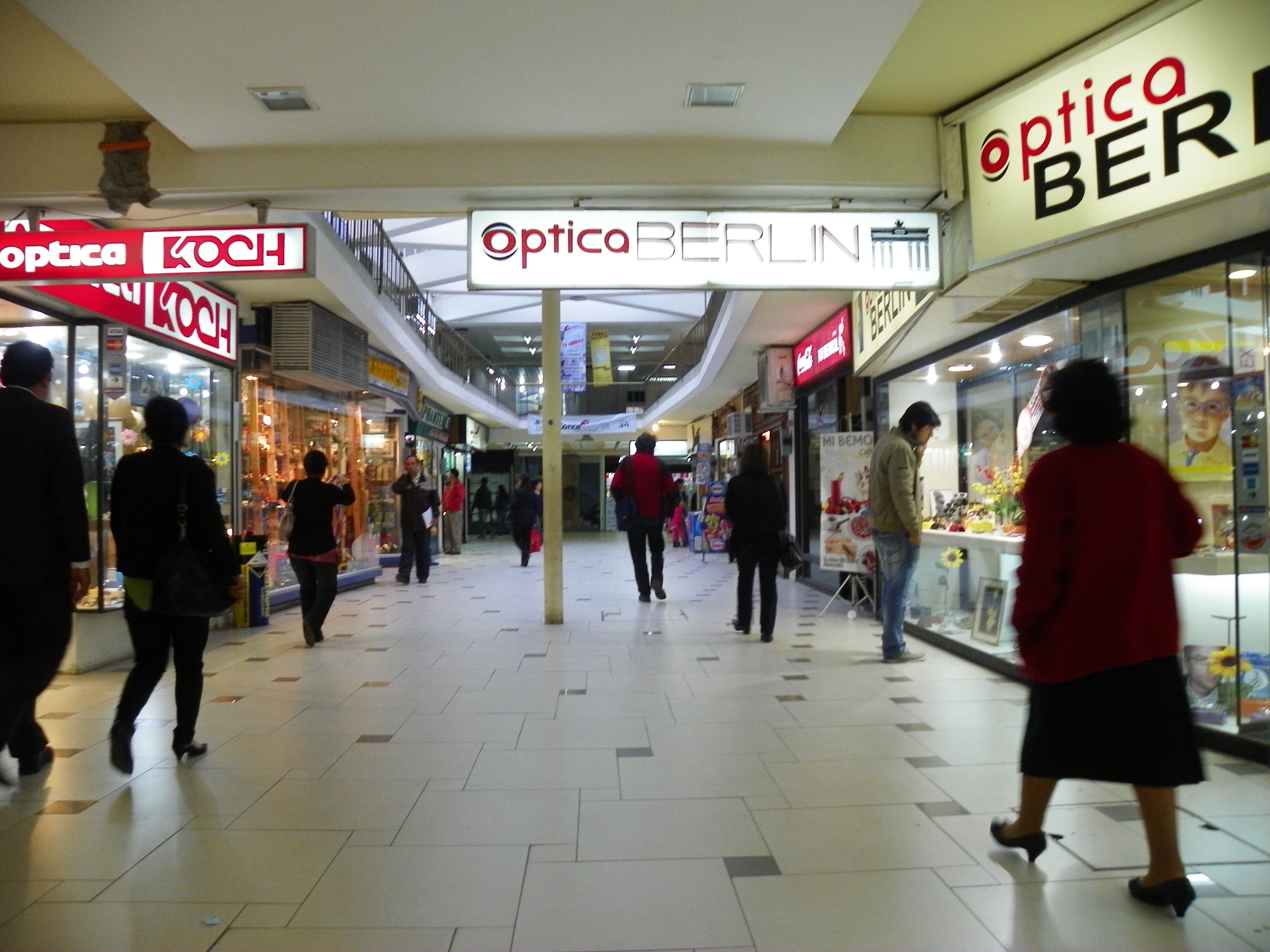 Interior galería Universitaria